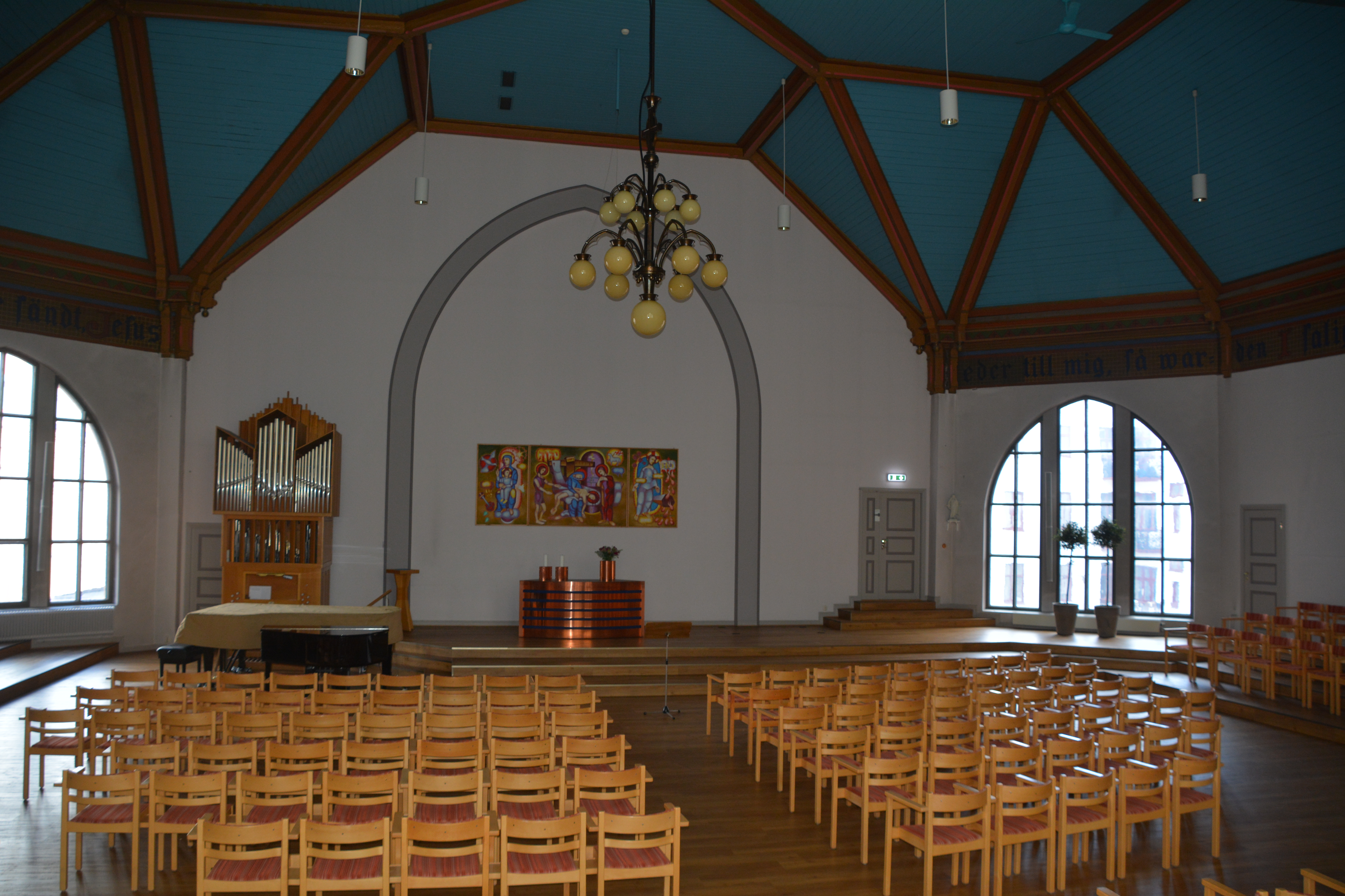 Kyrksalen i Immanuelskyrkan i Halmstad